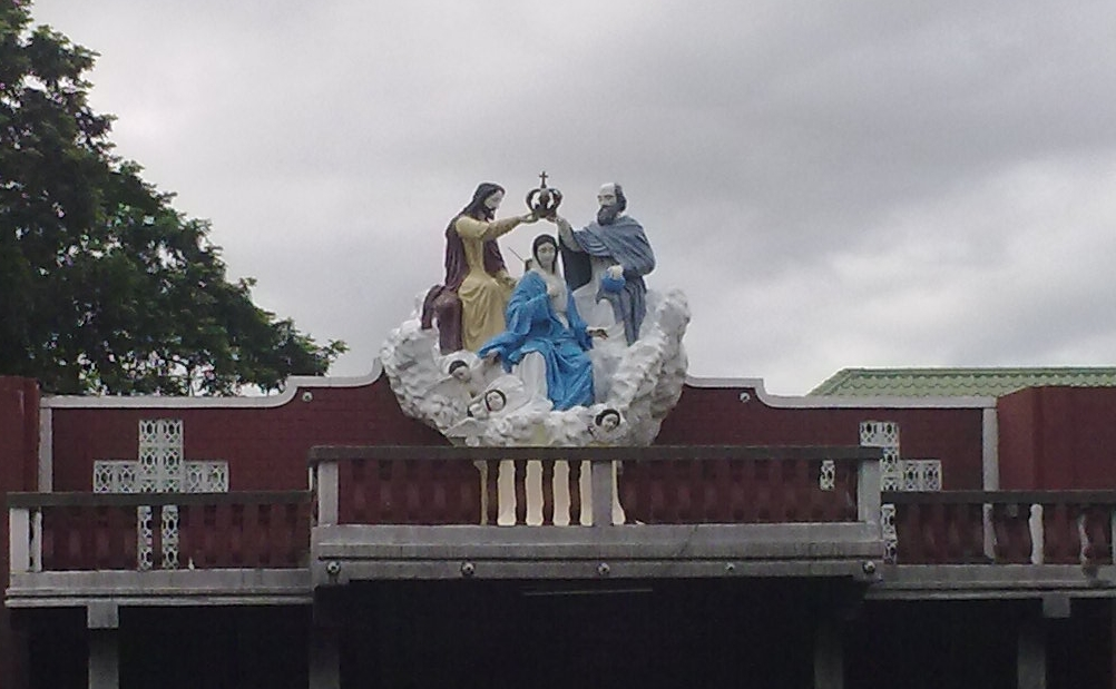 This is the cabin for the candles beside the Basilica Minore Nuestra Senora de Piat in Piat, Cagayan. It shows the coronation of the Blessed Virgin Mary as the Queen of Heaven and Earth.